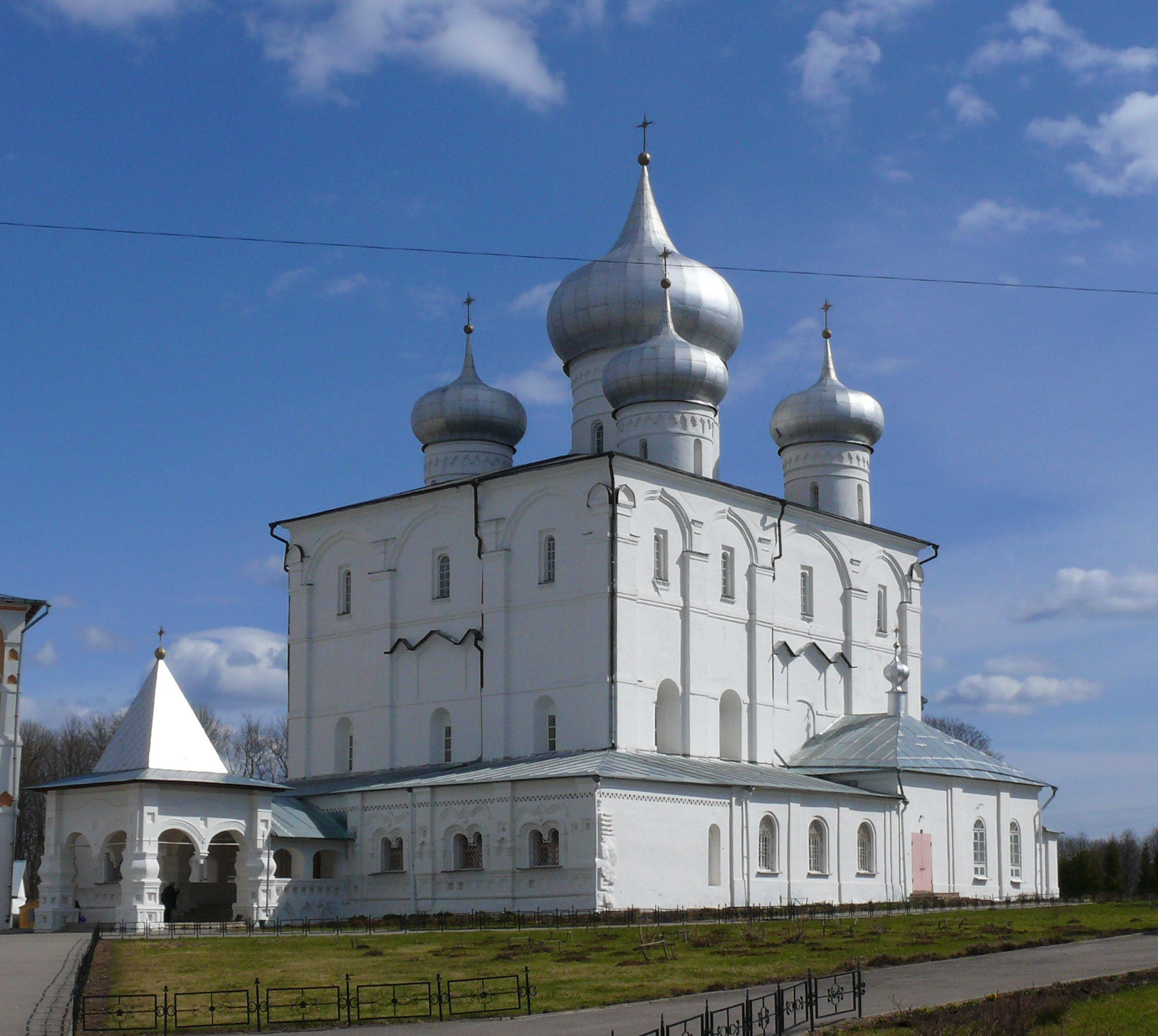 The cathedral of Transfiguration of Jesus in Khutynsky monastery. Novgorodsky district, Novgorod oblast, Russia